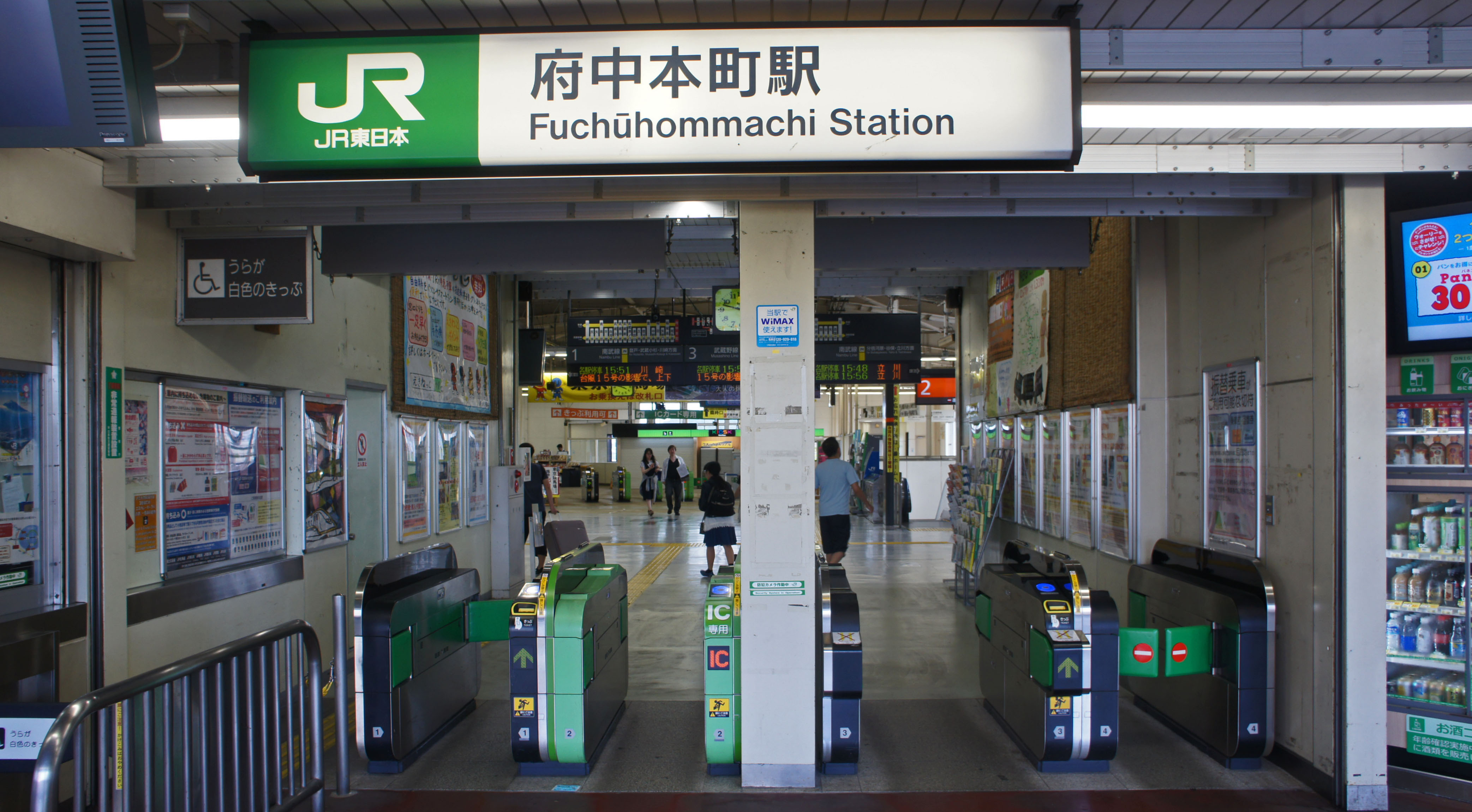 Gates of JR Nambu-Line/Musashino-Line Fuchuhommachi Station